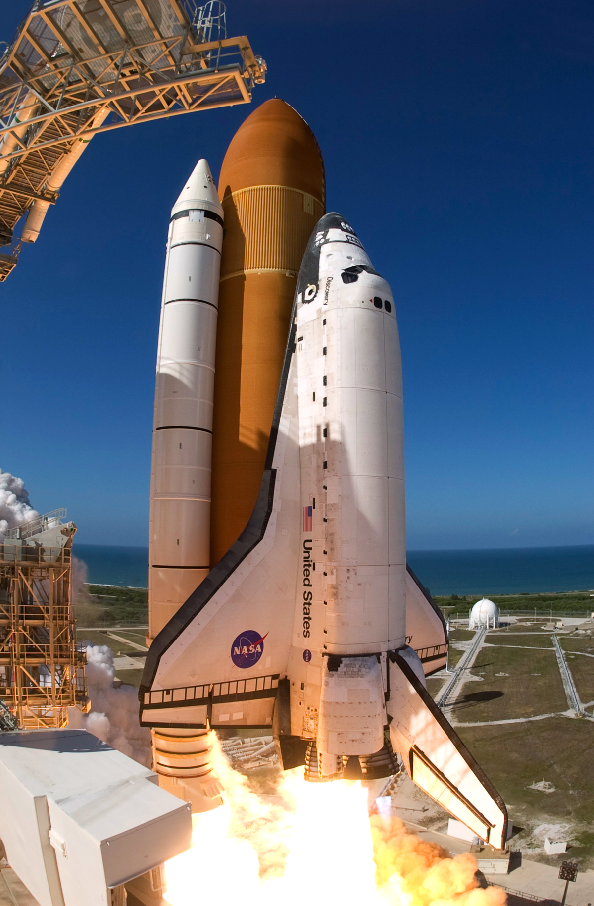 A fish-eye view from the service structure on Launch Pad 39A at NASA's Kennedy Space Center seems to bend the solid rocket booster as space shuttle Discovery lifts off on its STS-124 mission. The liftoff was on time at 5:02 p.m. EDT. Discovery is making its 35th flight. The STS-124 mission is the 26th in the assembly of the space station. It is the second of three flights launching components to complete the Japan Aerospace Exploration Agency's Kibo laboratory. The shuttle crew will install Kibo's large Japanese Pressurized Module and its remote manipulator system, or RMS.